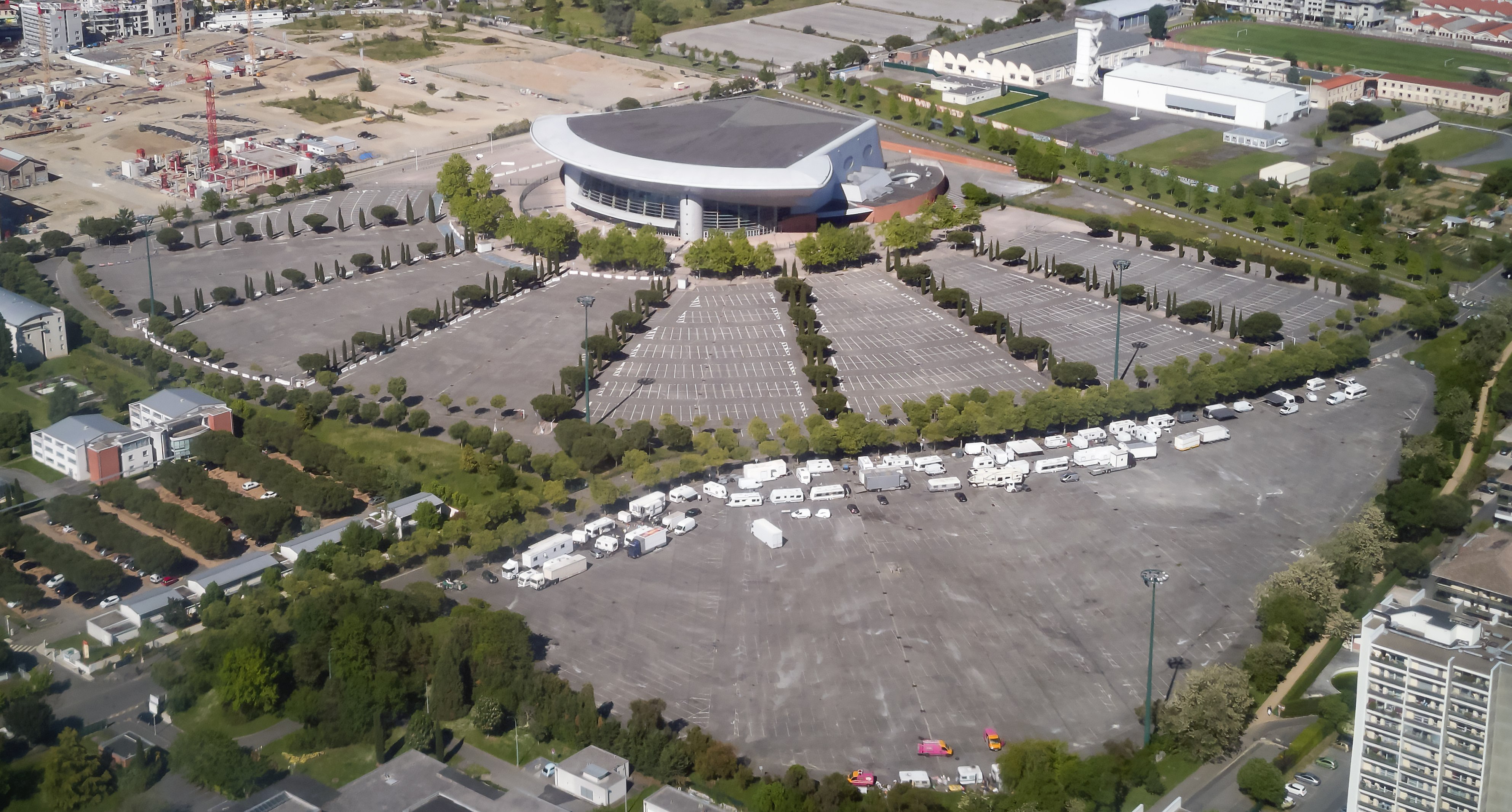 Aerial view of Zénith Toulouse Métropole